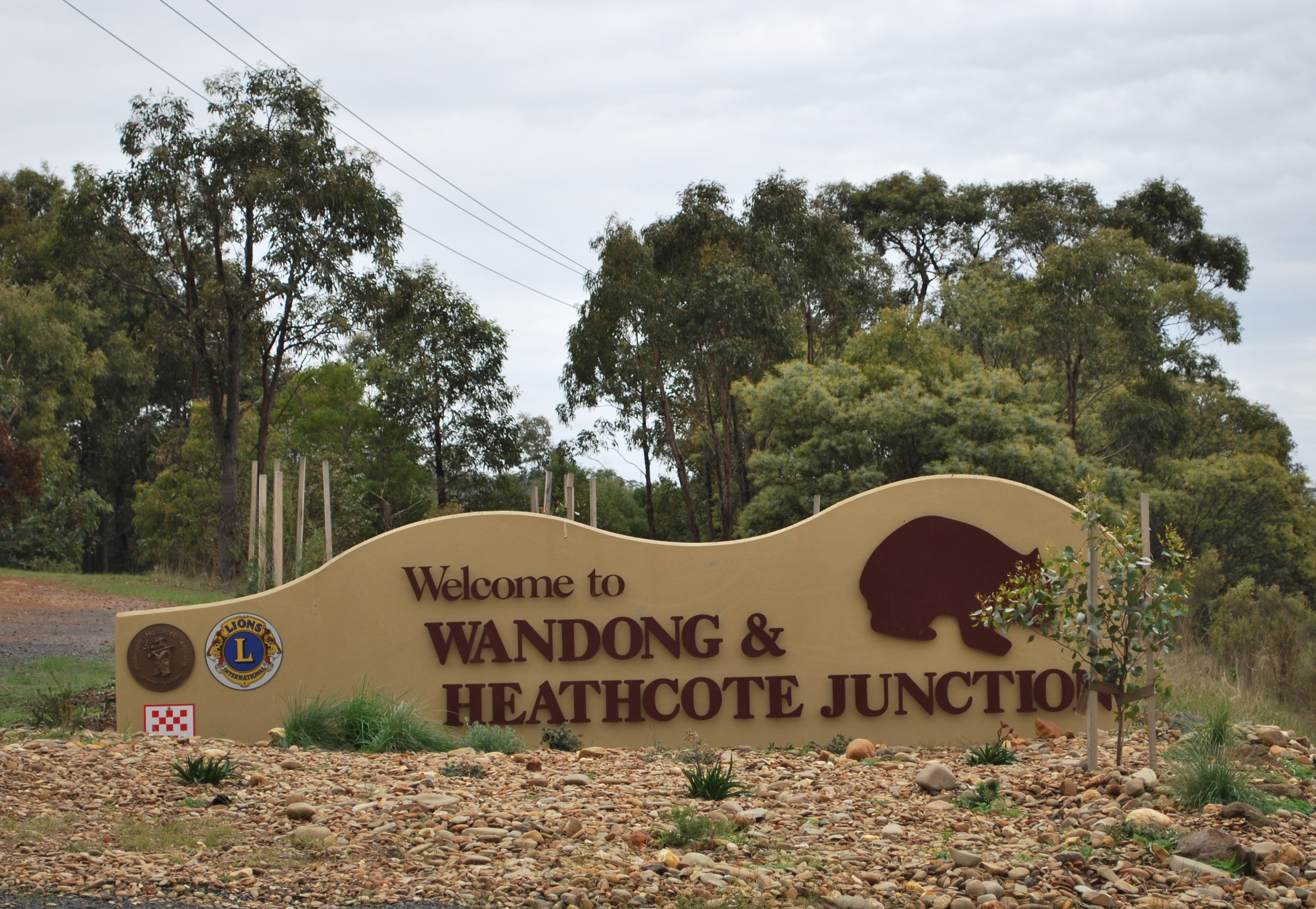 Town entry signage for Wandong, Victoria and Heathcote Junction, Victoria